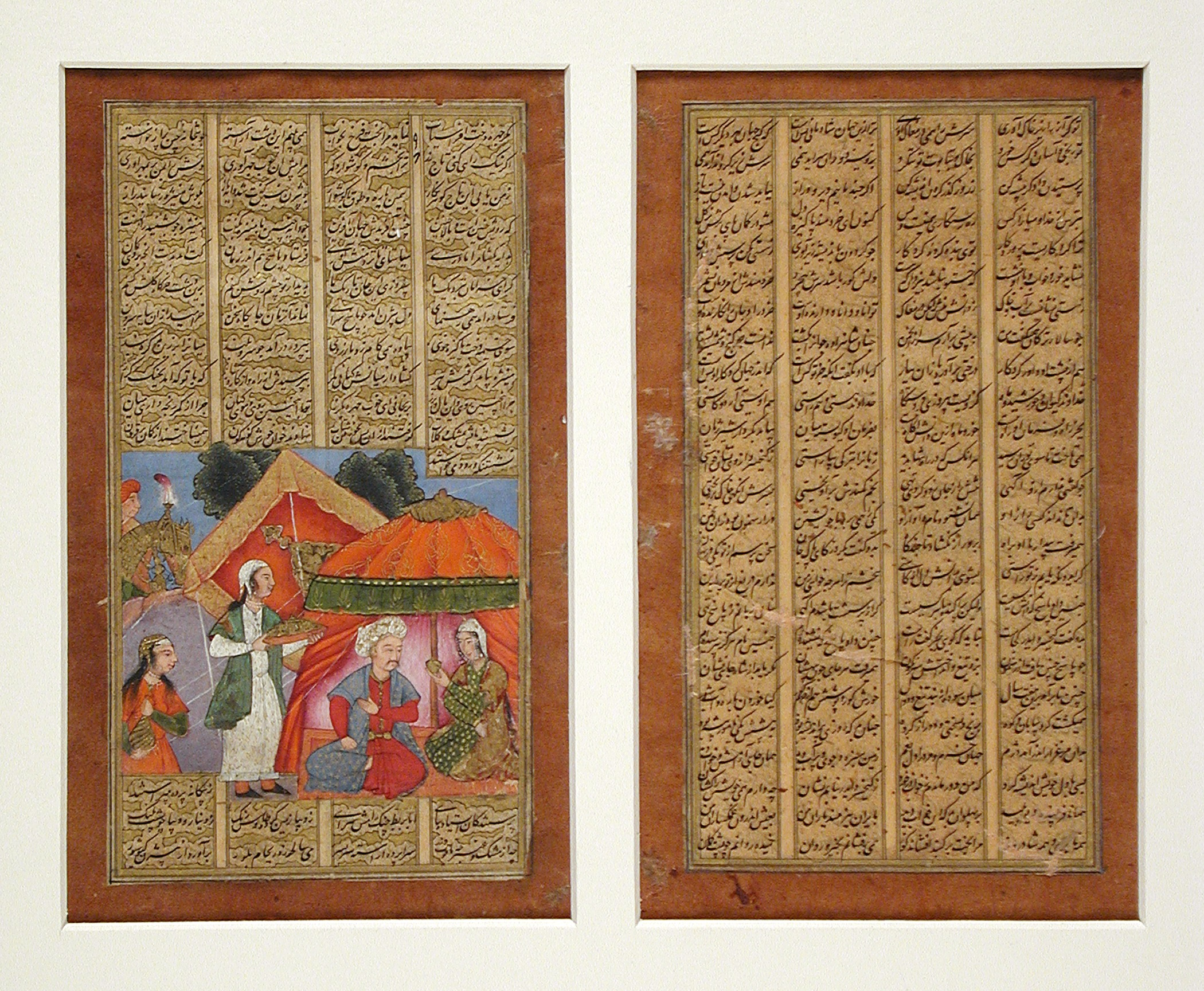 India, Karnataka, Bijapur, circa 1610 Drawings; watercolors Black and red ink, opaque watercolor, and gold on brown paper. Purchased with funds provided by Dorothy and Richard Sherwood and the Indian Art Special Purpose Fund (M.81.12a-b) South and Southeast Asian Art